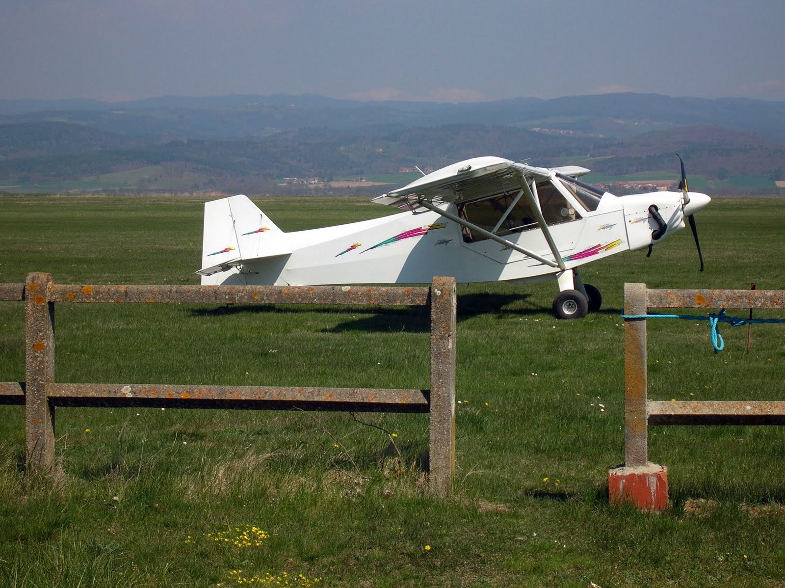 A Rans S-7 Courier at Brioude airport, with propeller damage.